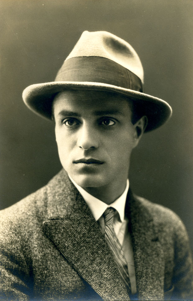 A photograph of Myroslav Irchan, a popular Ukrainian left-wing playwright, Winnipeg, Manitoba, dated 1926.